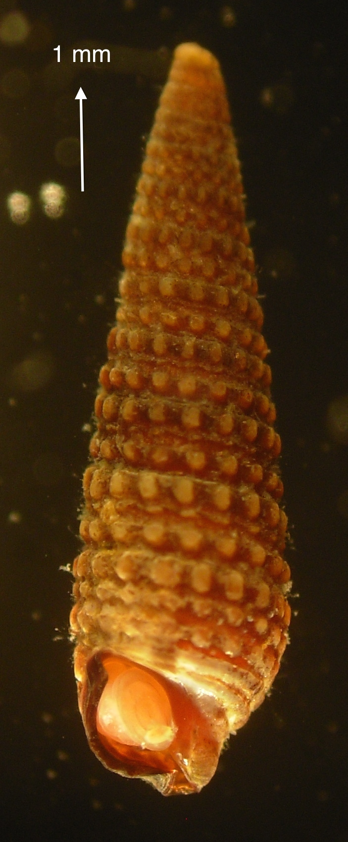 Monophorus (=Triphora = Marcshallora) perversus shell.